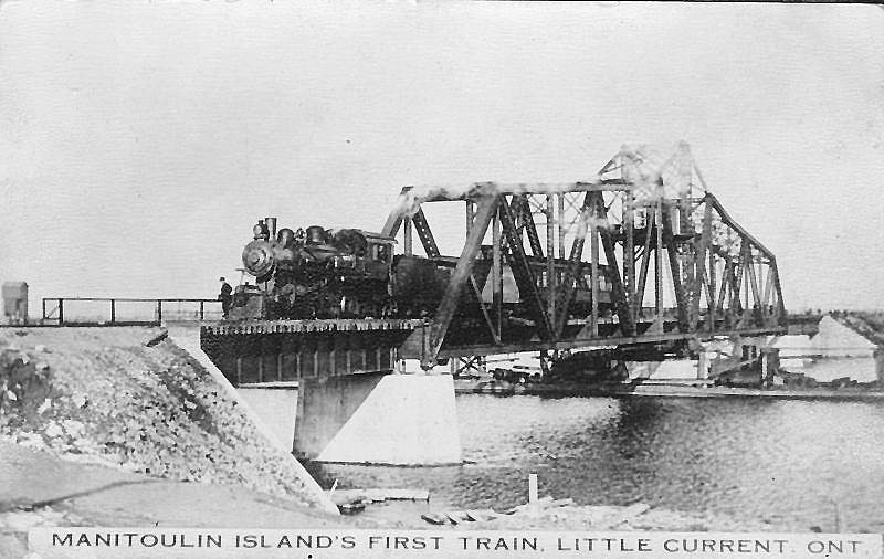 1913 photograph of the first Algoma Eastern Railway train, hauled by Locomotive #51, to cross the Little Current Swing Bridge over Lake Huron's North Channel to Little Current, Ontario.